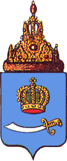 Coat of arms of Tsardom of Astrakhan